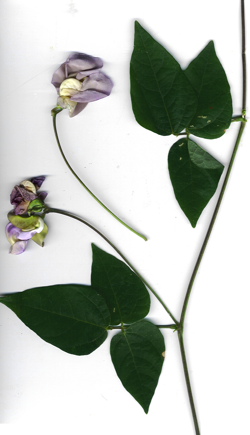 Vigna speciosa (plant). Location: Maui, Nahiku